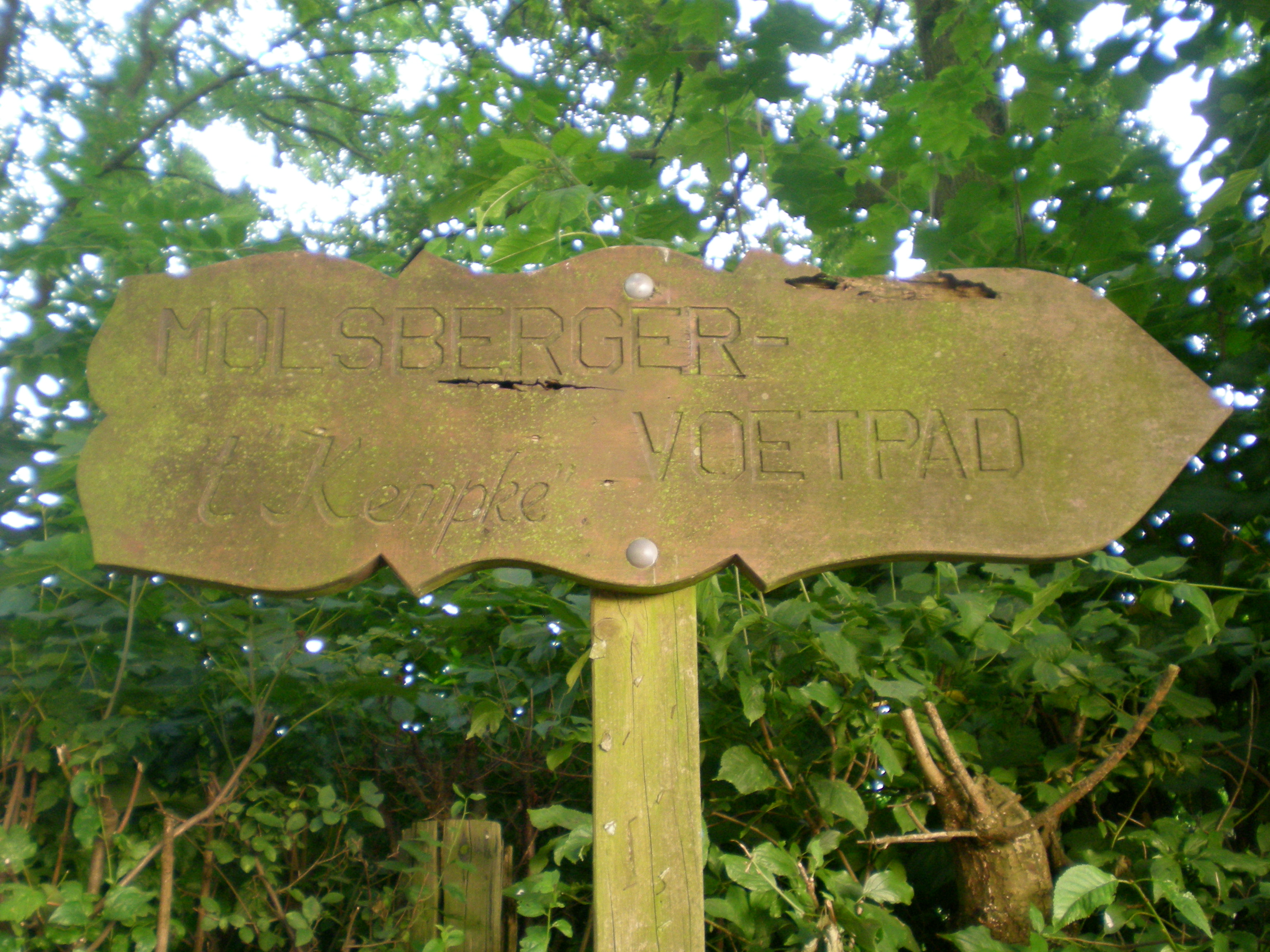 Sign, Molsberg, Simpelveld